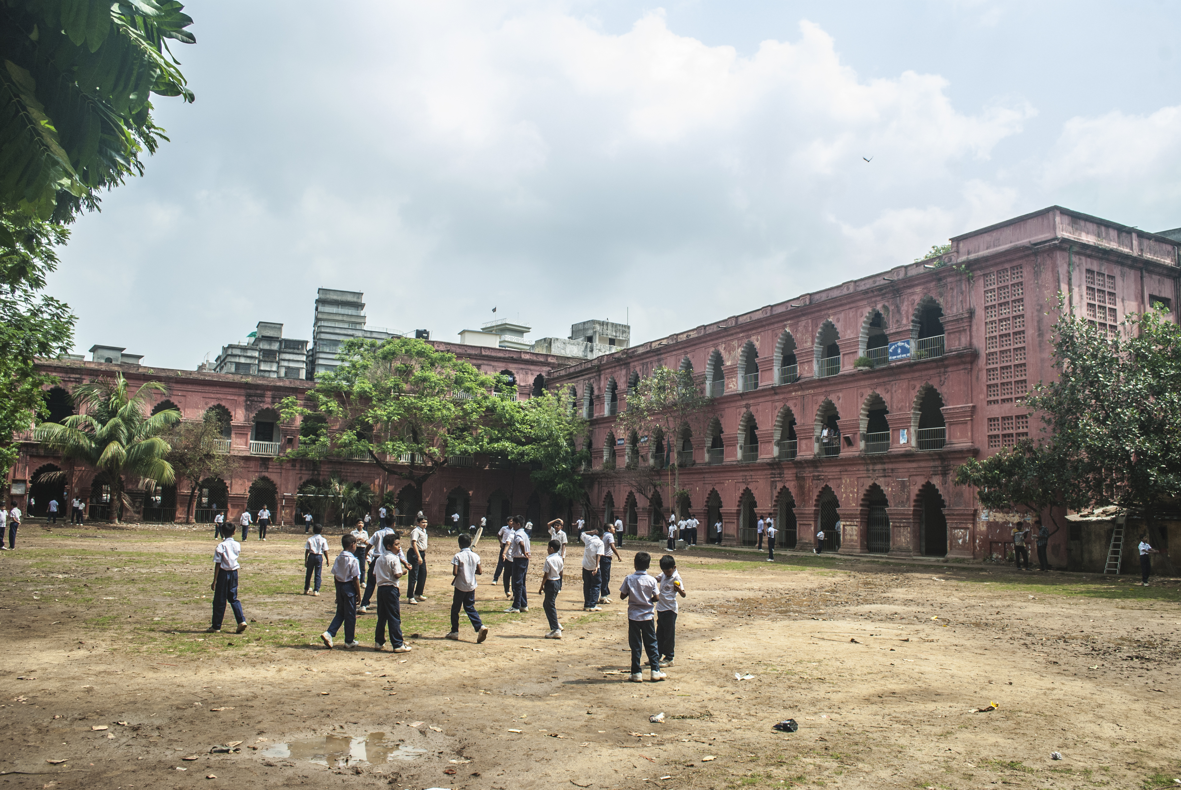 Islamia High School was established in 1874 as Dhaka Madrasa